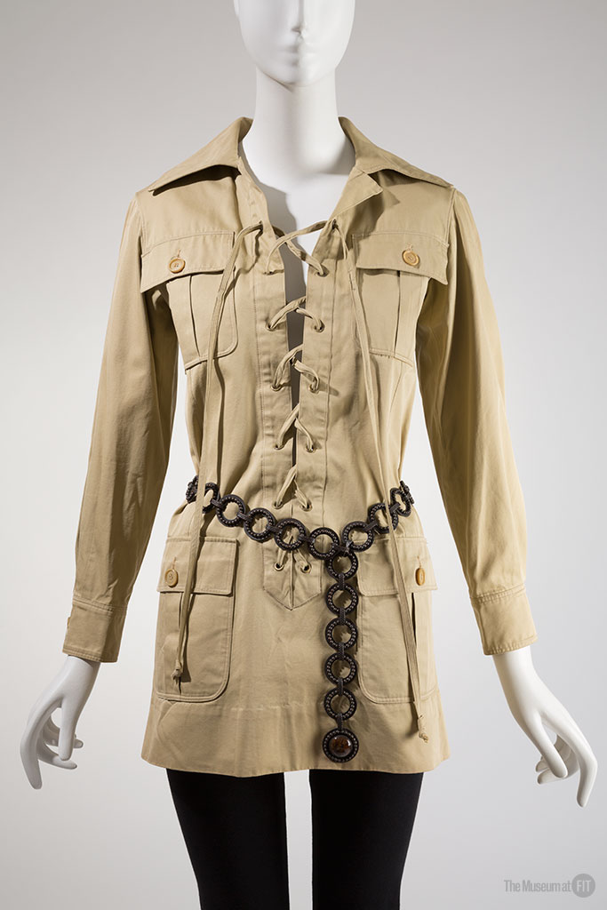 Khaki 1968, France Gift of Mary Russell, 96.84.8 YSL + Halston: Fashioning the 70s Photograph by Eileen Costa © The Museum at FIT.